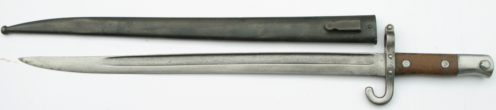 Mannlicher M1885 Bayonet